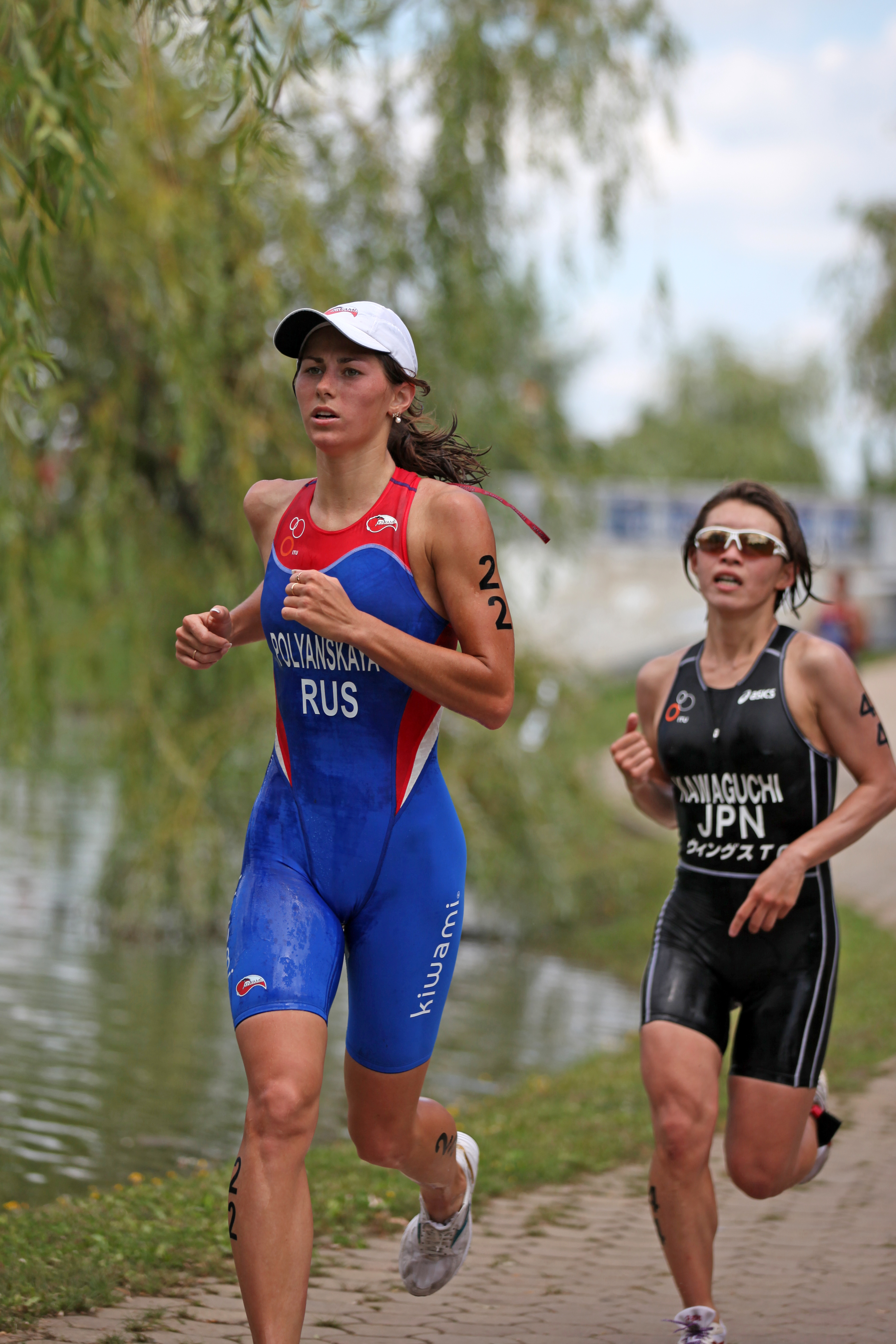 Anastasiya Polyanskaya (Анастасия Сергеевна Полянская Яценко) at the World Cup triathlon in Tiszaújváros.